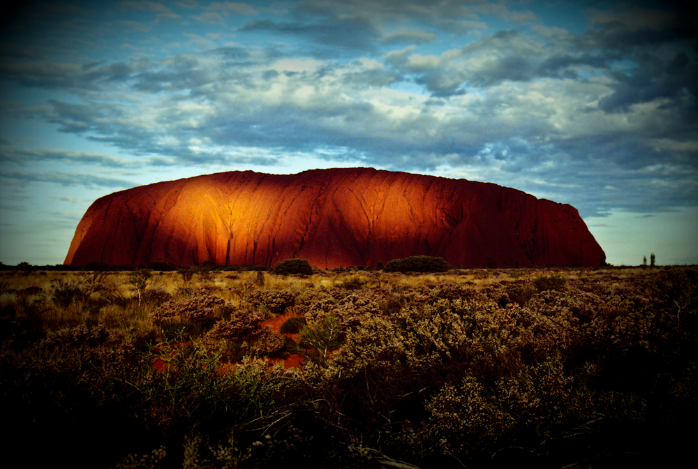 Dusk near Uluru (Australia)